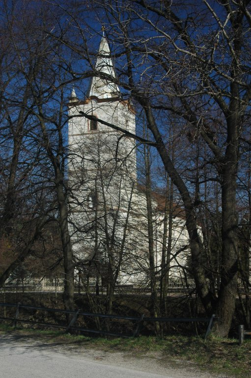 Sobotište, church